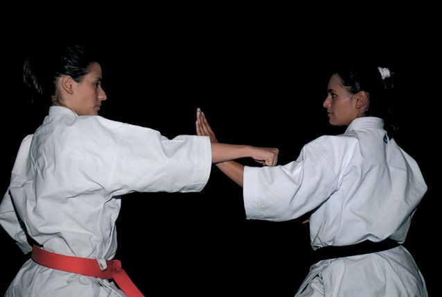 karate kata